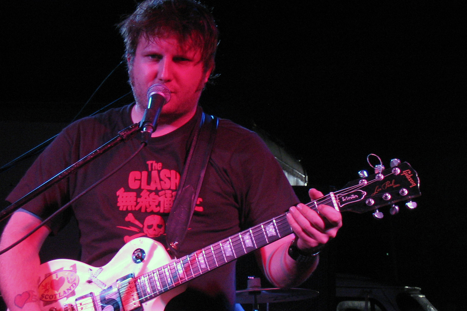 Spencer Albee playing with As Fast As at the Rock Against Rape concert, University of Maine, September 18, 2004 He has lost weight since this photo was taken.